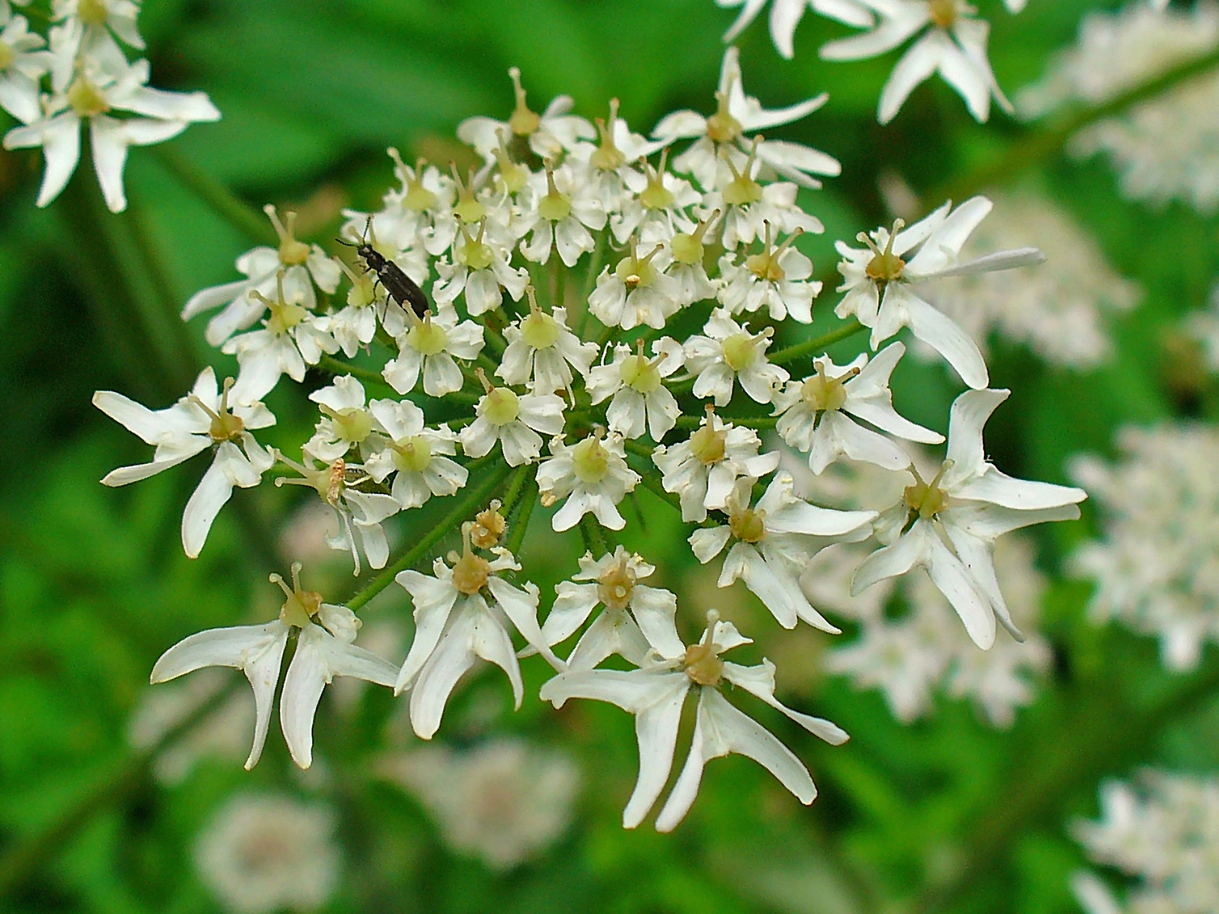 Heracleum sphondylium , Apiaceae, Common Hogweed, inflorescenc; Karlsruhe, Germany. The fresh, aerial parts are used in homeopathy as remedy: Heracleum sphondylium (Bran.)